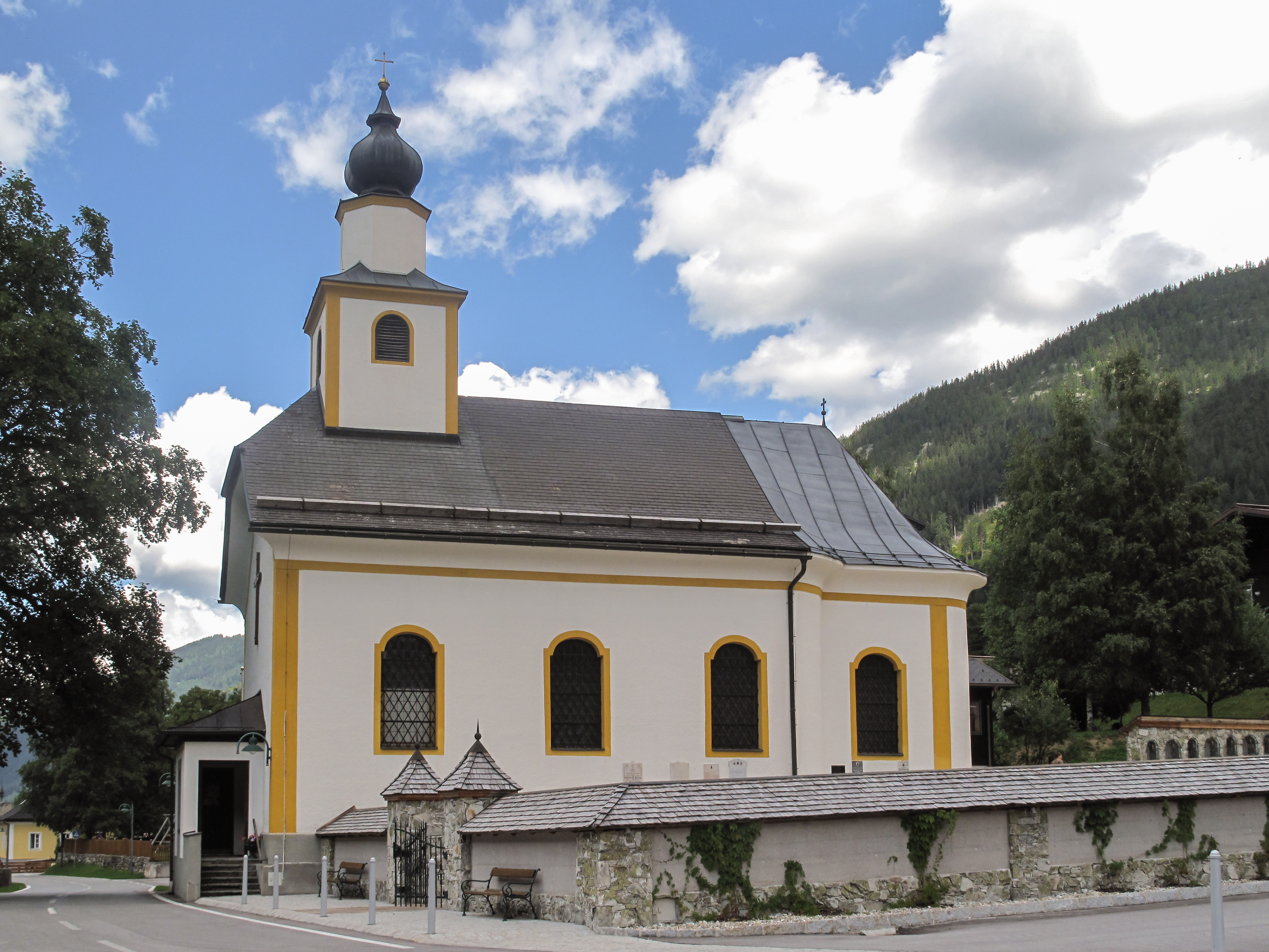 Untertauern, church